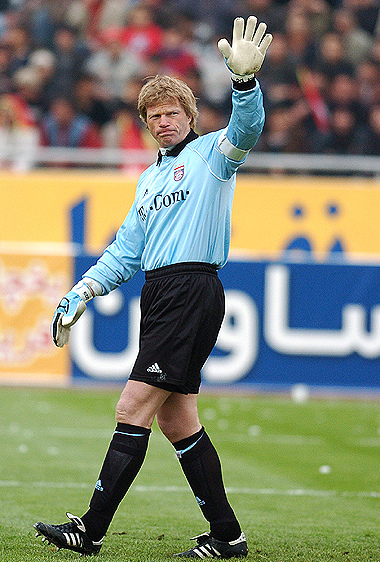 Persepolis F.C. v FC Bayern Munich, 13 January 2006, Azadi Stadium.